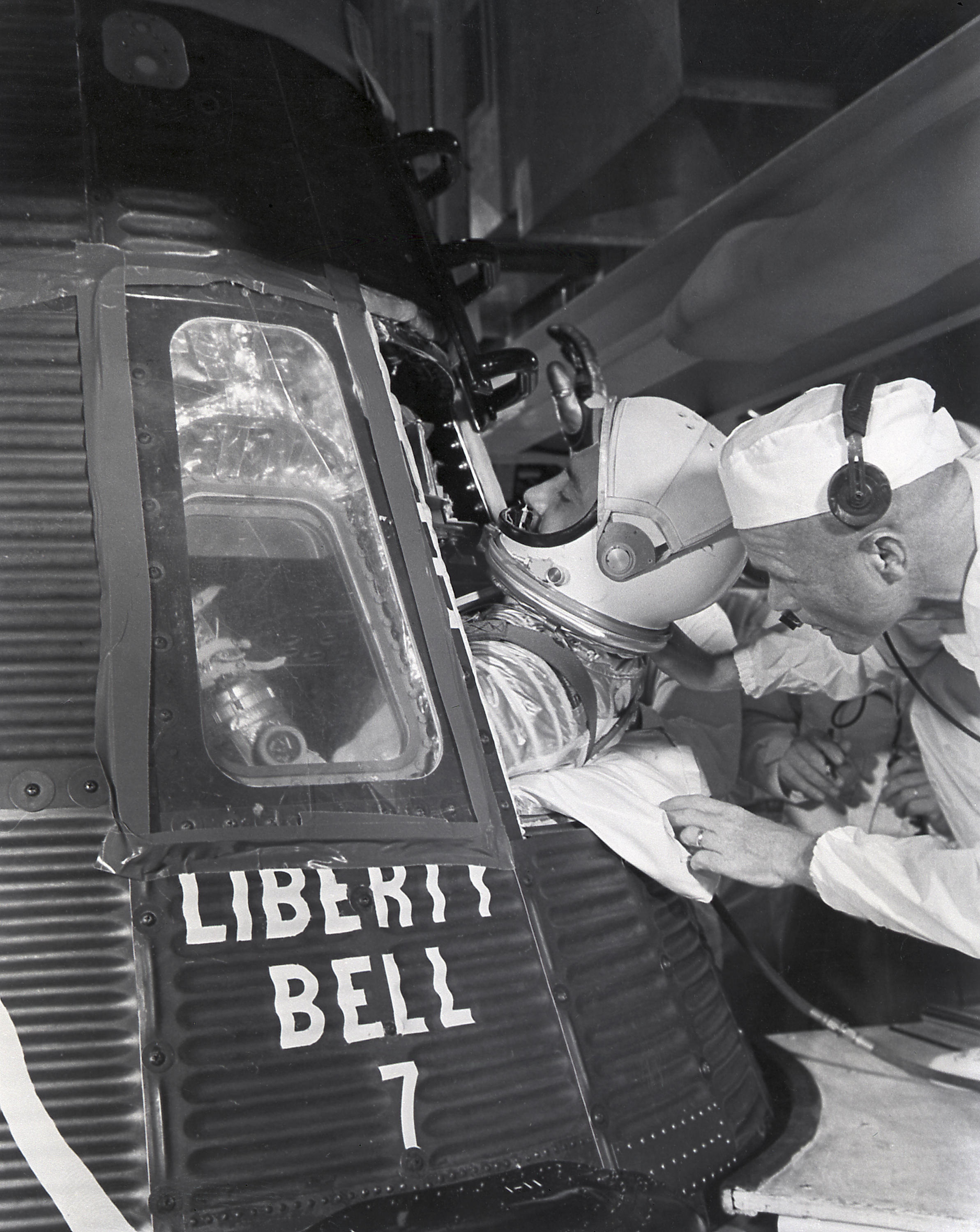 Assisted by astronaut John Glenn, astronaut Virgil Grissom enters the Mercury capsule, Liberty Bell 7, for the MR-4 mission on July 21, 1961. Boosted by the Mercury-Redstone vehicle, the MR-4 mission was the second manned suborbital flight.